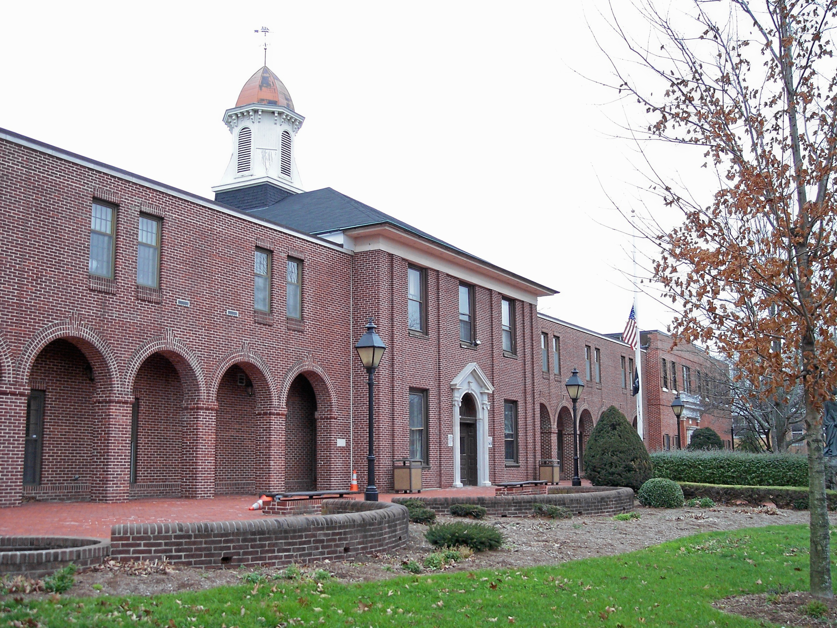 The Atlantic County Courthouse in Mays Landing, New Jersey